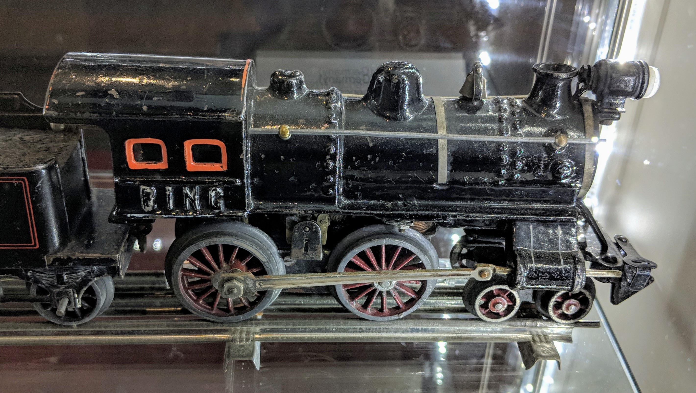 A Bing model locomotive, at the California State Railroad Museum. Made around 1914. Photo by Jim Heaphy.